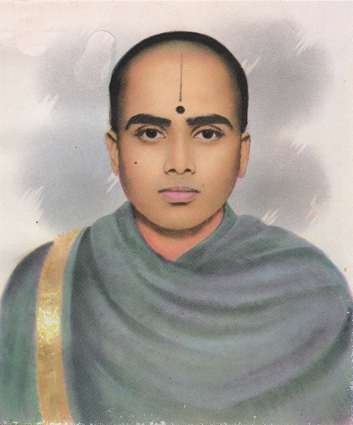 Dr. H.K.Vedavyasachar - the author of the book 'Karnatakada Haridasaru'